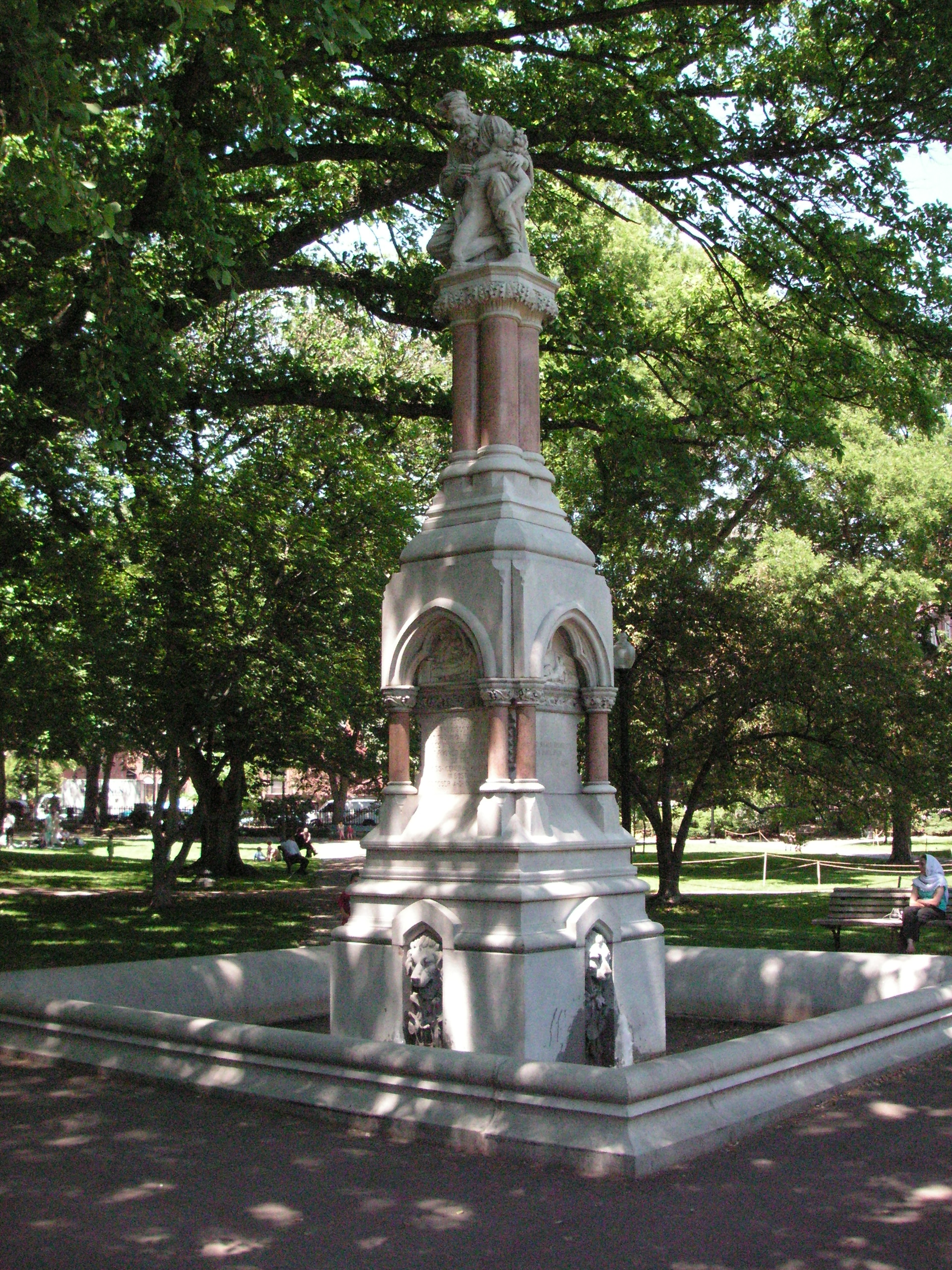 Overview of "The Good Samaritan" also known as the "Ether Monument" standing in the Boston Public Garden. Statue is by JQA Ward.